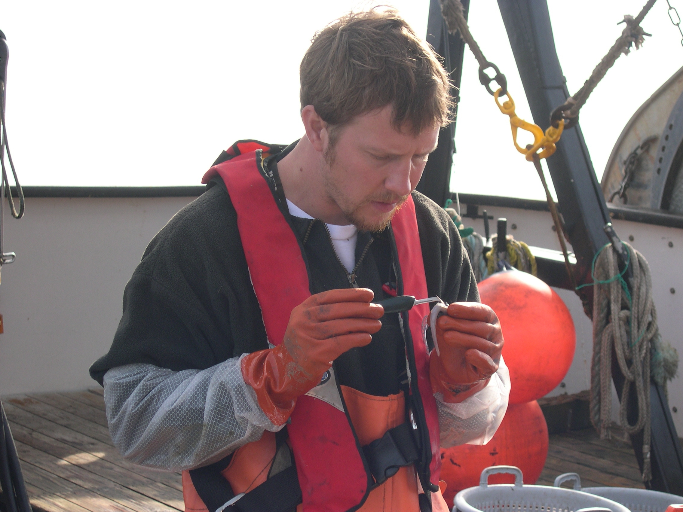 NOAA Fisheries employee John Harms determines the sex of a small Pacific Flatnose (Antimora microlepis) during the 2003 west coast groundfish trawl survey aboard the F/V Excalibur. Pacific Ocean, West Coast United States.